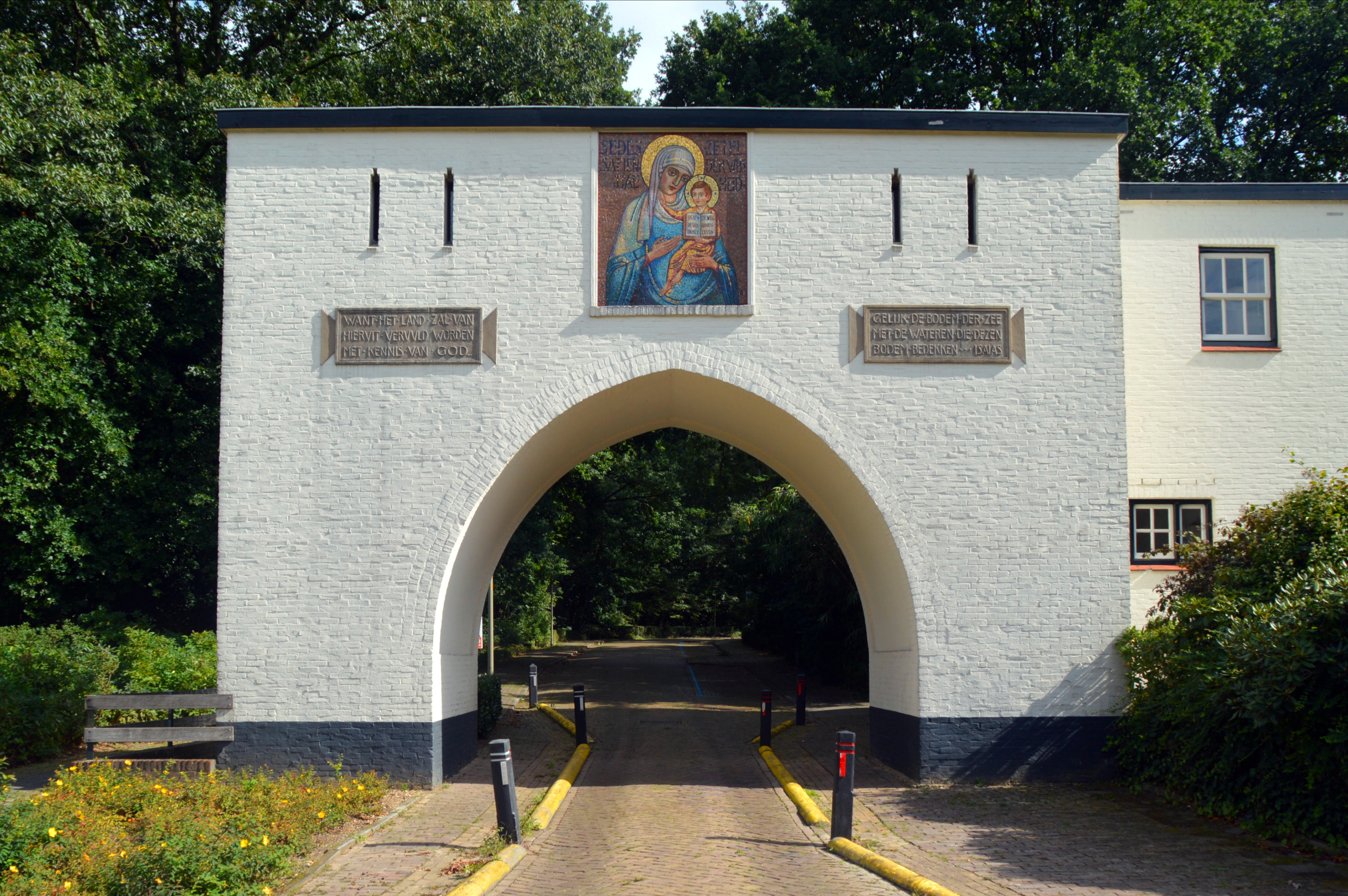 House with gate Profetenlaan 15 holy Landstichting 1923 Nijmegen